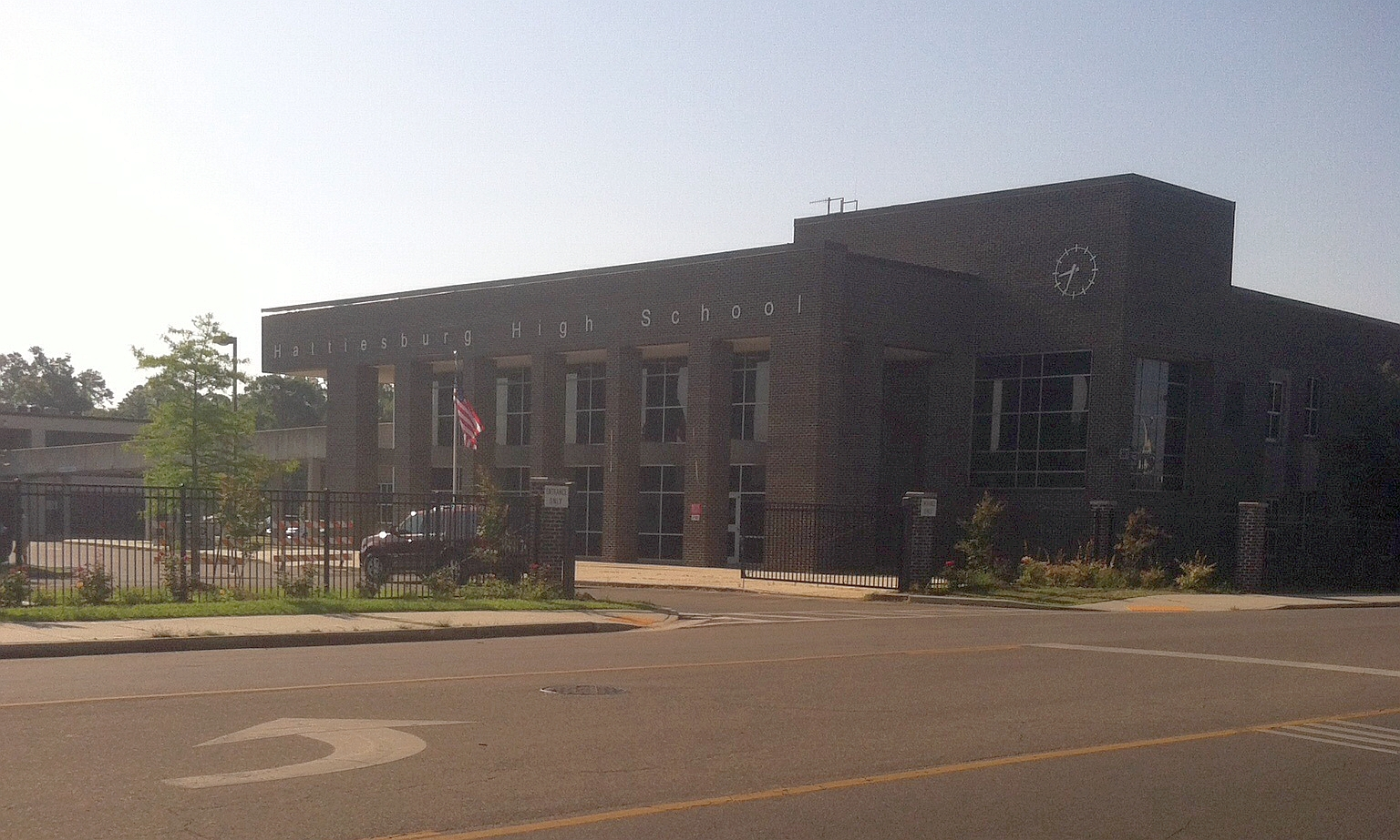 Hattiesburg High School - 301 Hutchinson Avenue Hattiesburg, MS 39401